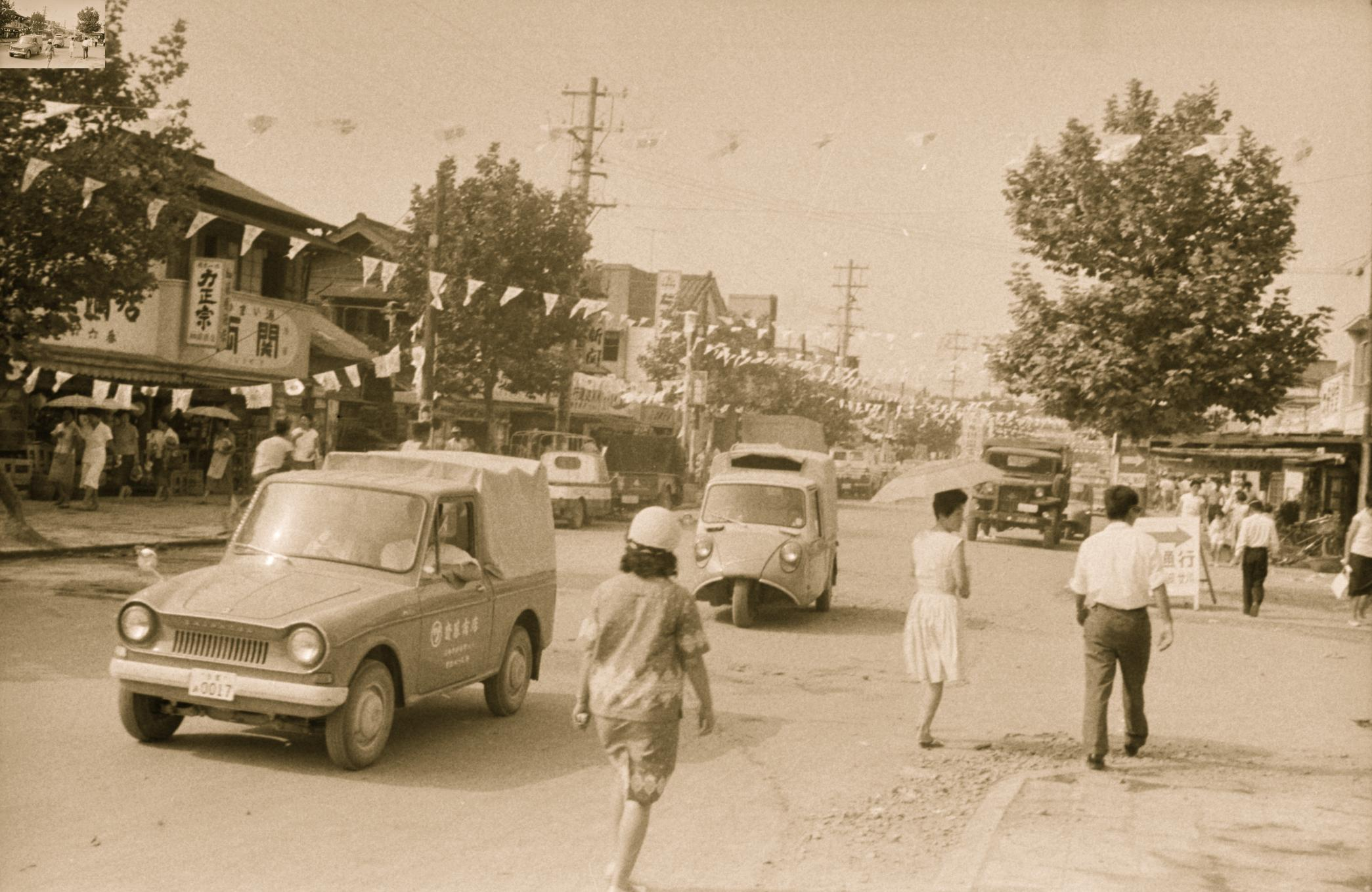 Daihatsu Hijet & Mazda K360 3-wheeler in street of Ishinomaki, an early sixties scene in Japan